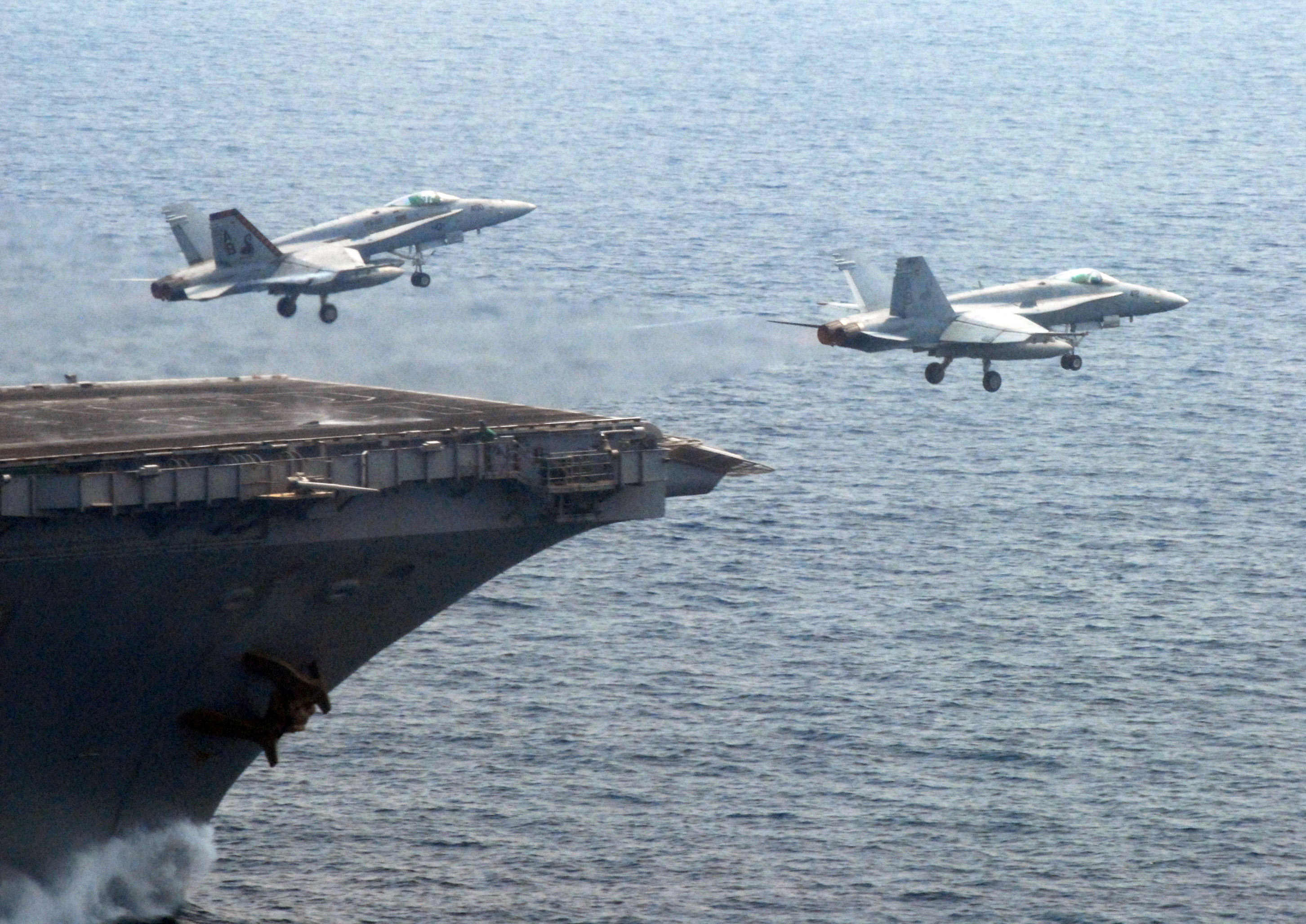 Two aircraft are simultaneously launched from USS Enterprise.